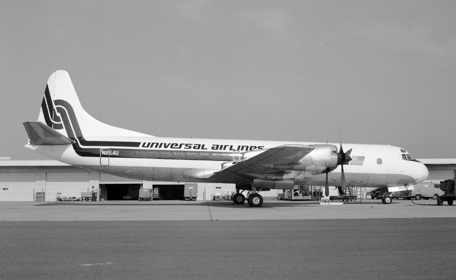 Lockheed L-188C Universal Airlines